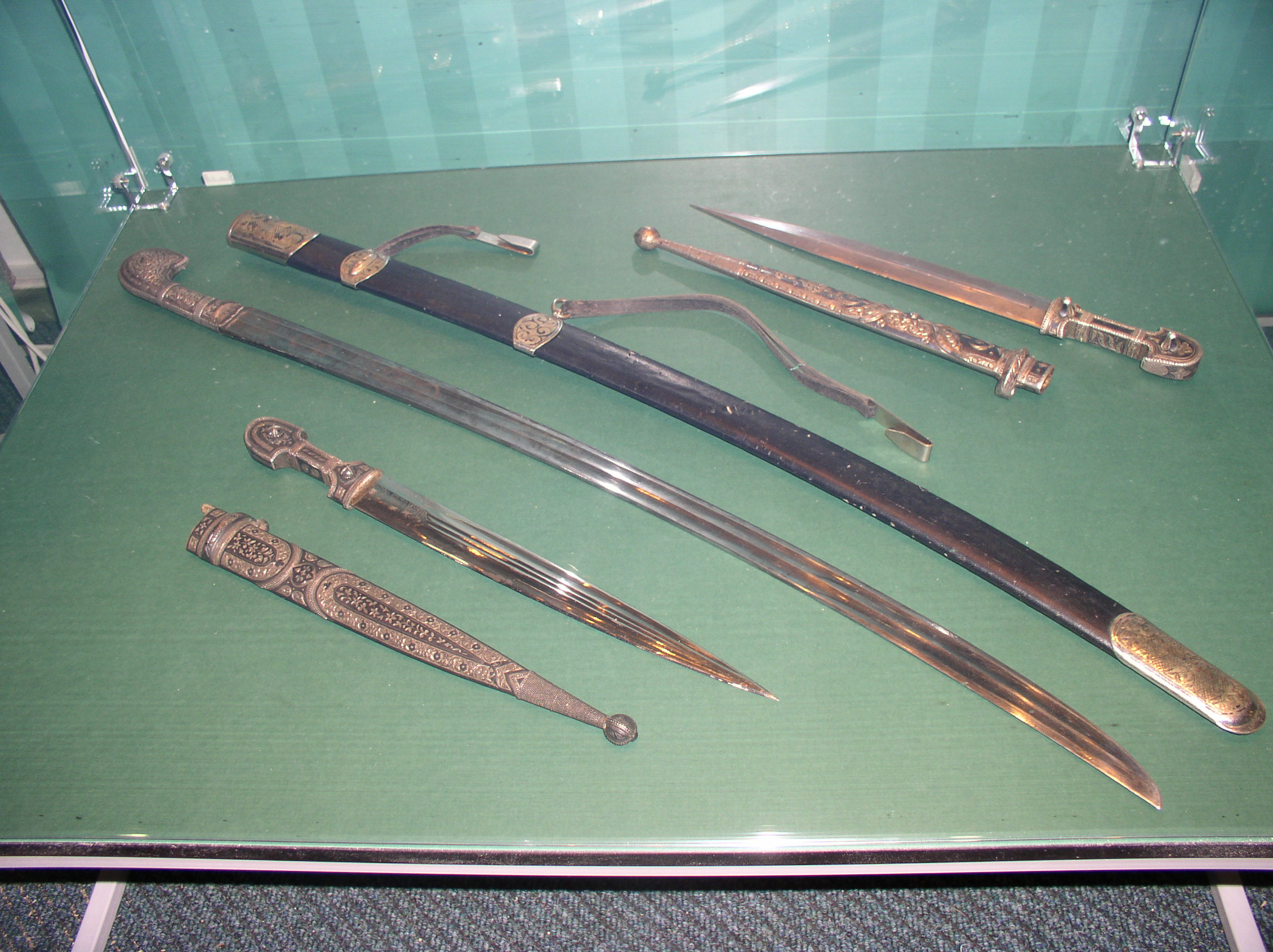 Sabres and daggers. National museum of history and culture of Belarus. Karl Marx street, 12. Minsk, Belarus.